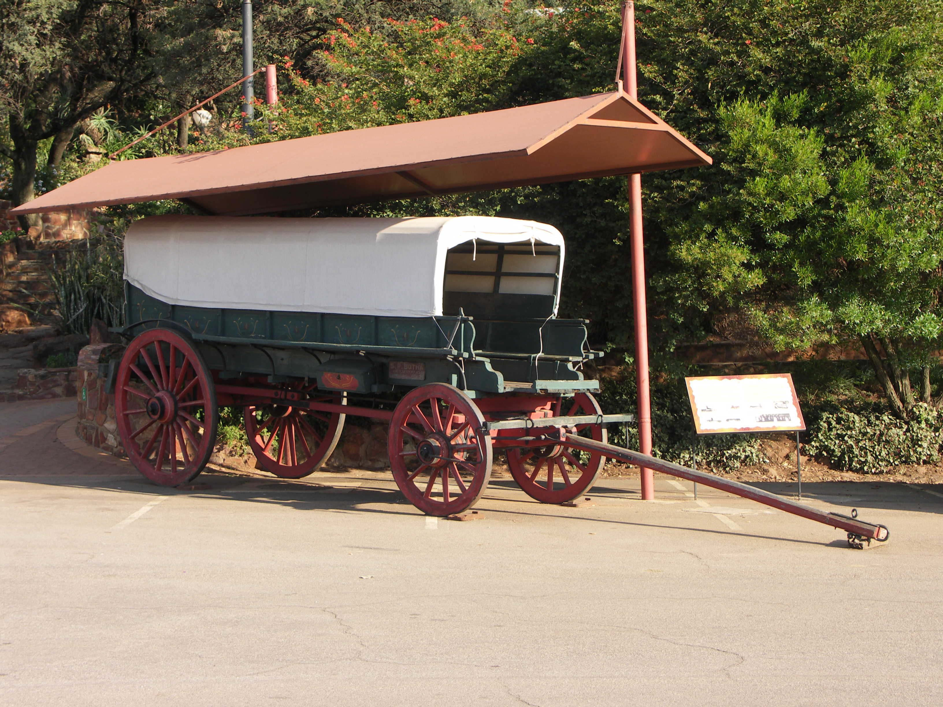 Ox-wagon at the Voortrekker Monument in Pretoria, South Africa